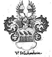 Wappen des pfälzischen Adelsgeschlechtes von Wachenheim